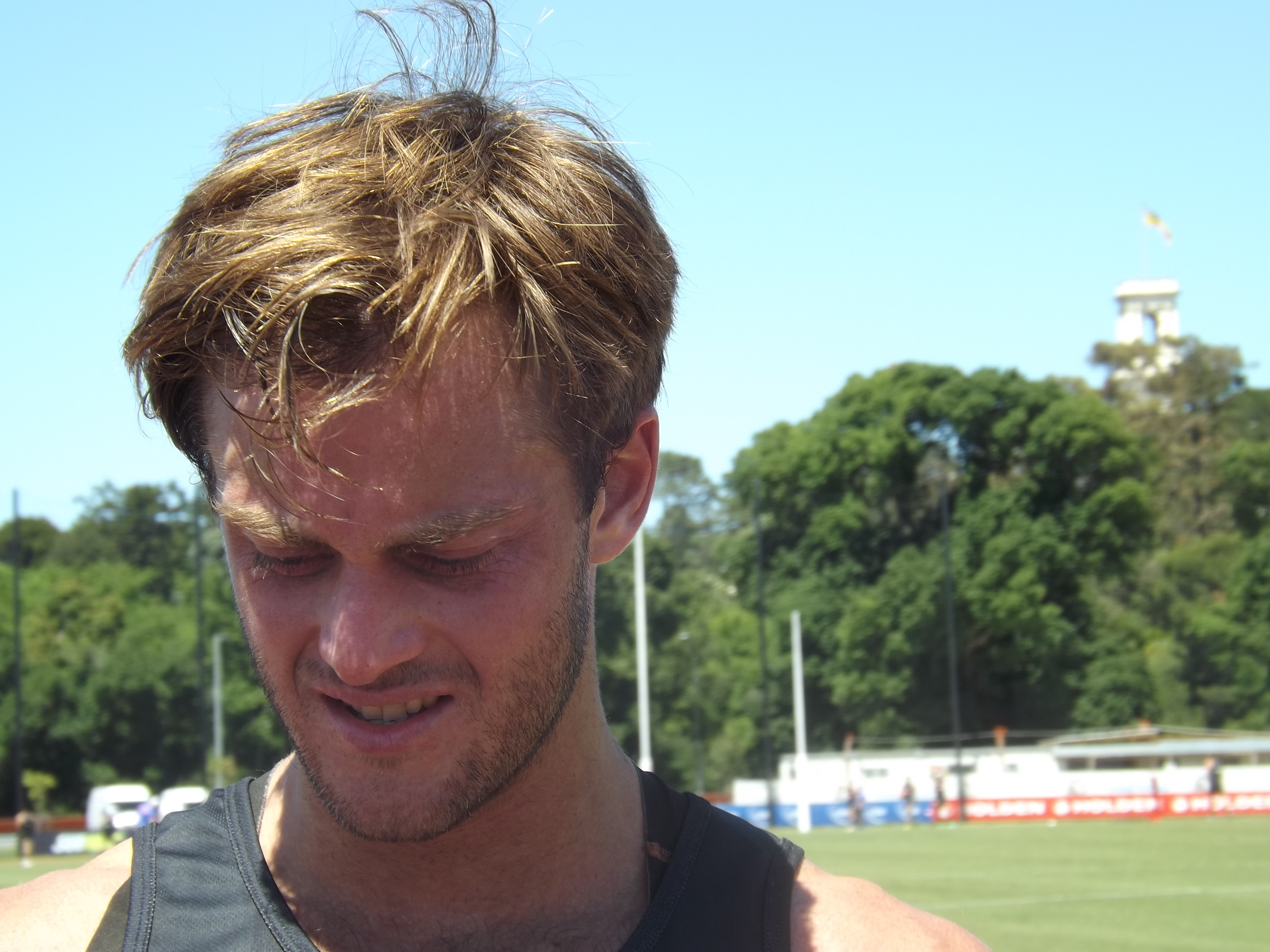 Alan Toovey signs autographs during a Collingwood open training session at Olympic Park, Melbourne.